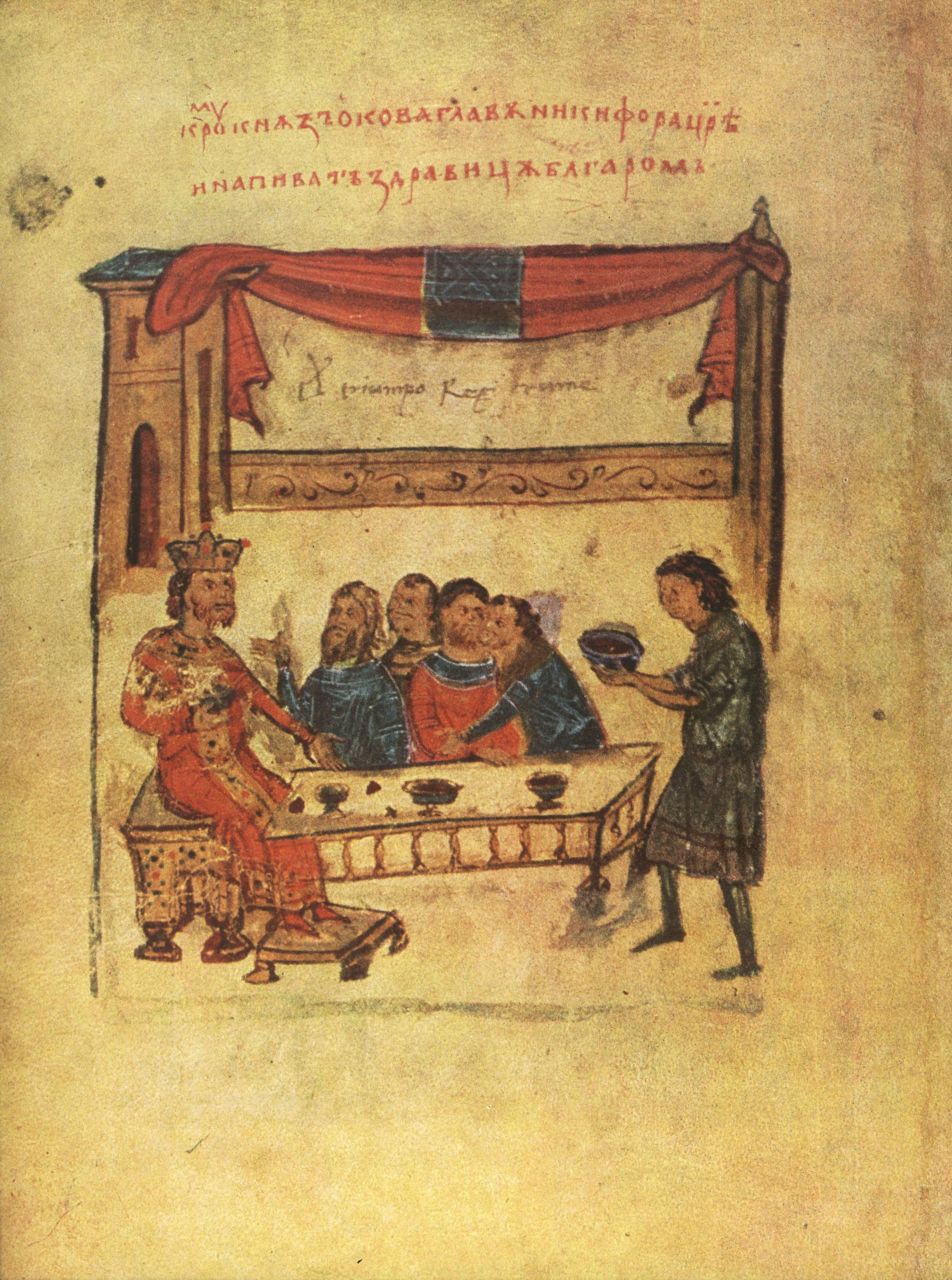 Miniature 51 from the Constantine Manasses Chronicle, 14 century: Krum of Bulgaria celebrating his victory over emperor Nikephoros.